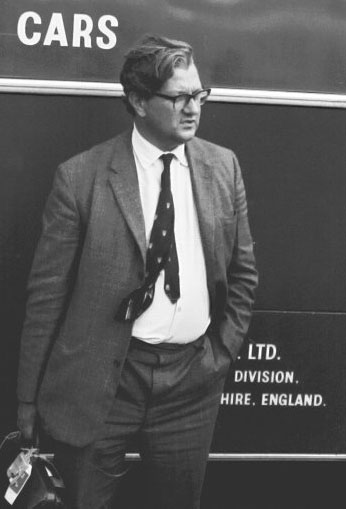 The picture of BRM engineer Tony Rudd was taken in August 1967 at Nürburgring on the occasion of the German Formula 1 Grand Prix race there.